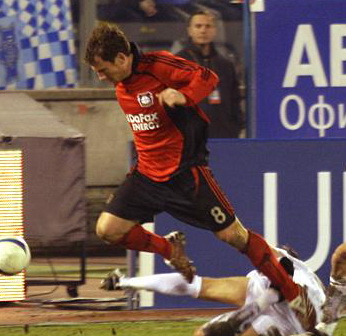 Paul Freier against FC Zenit Saint Petersburg}